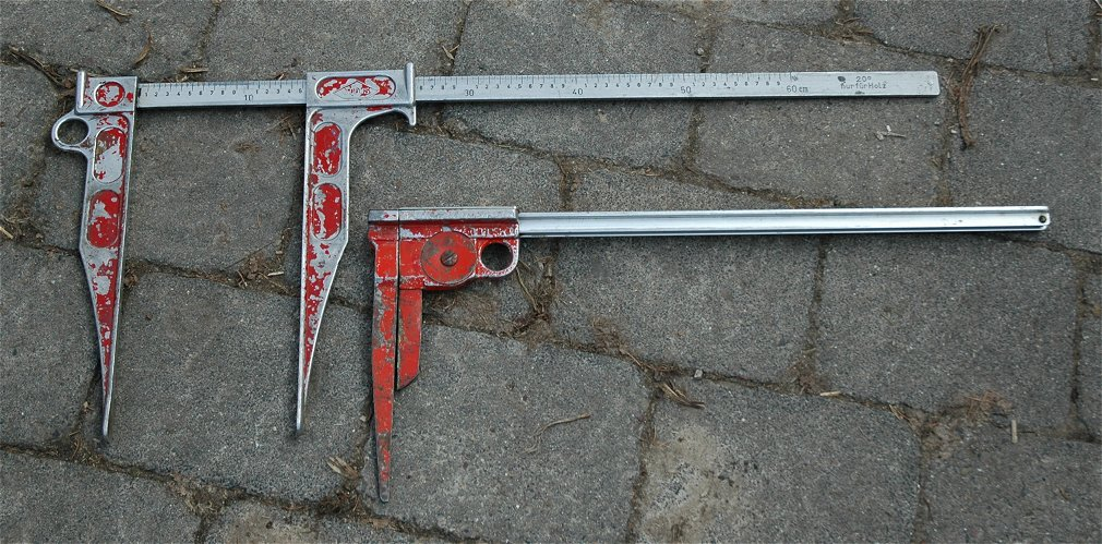 Callipers, Forest measurement